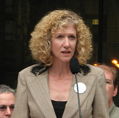 Presser